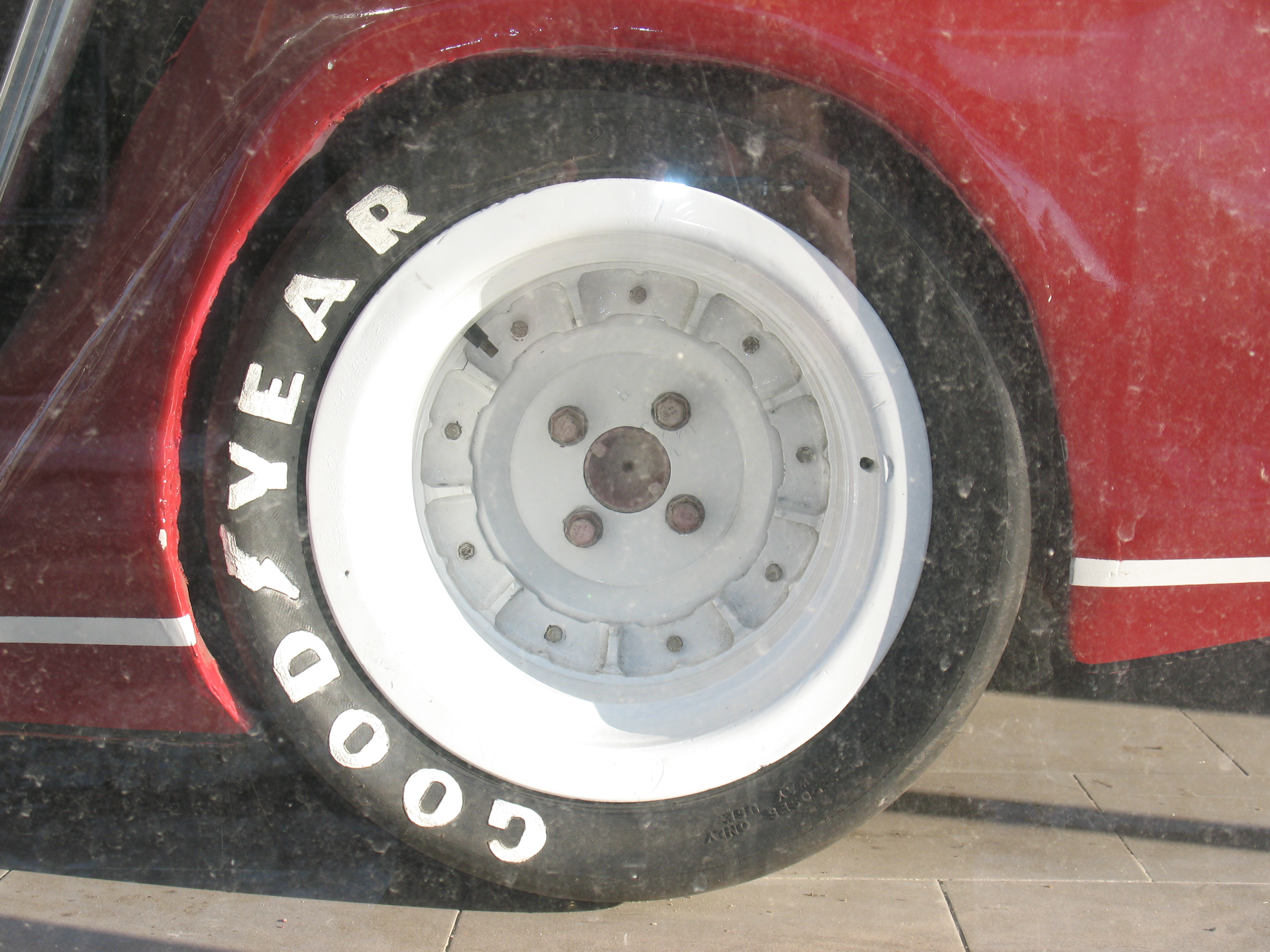 Automobile KhADI-27 (USSR) in Kharkov. Chernyshevskaya street.